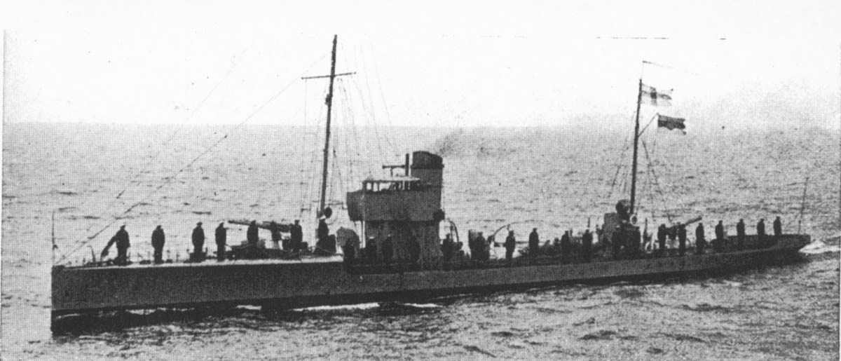 Estonian torpedo boat Sulev (former SMS A 32).